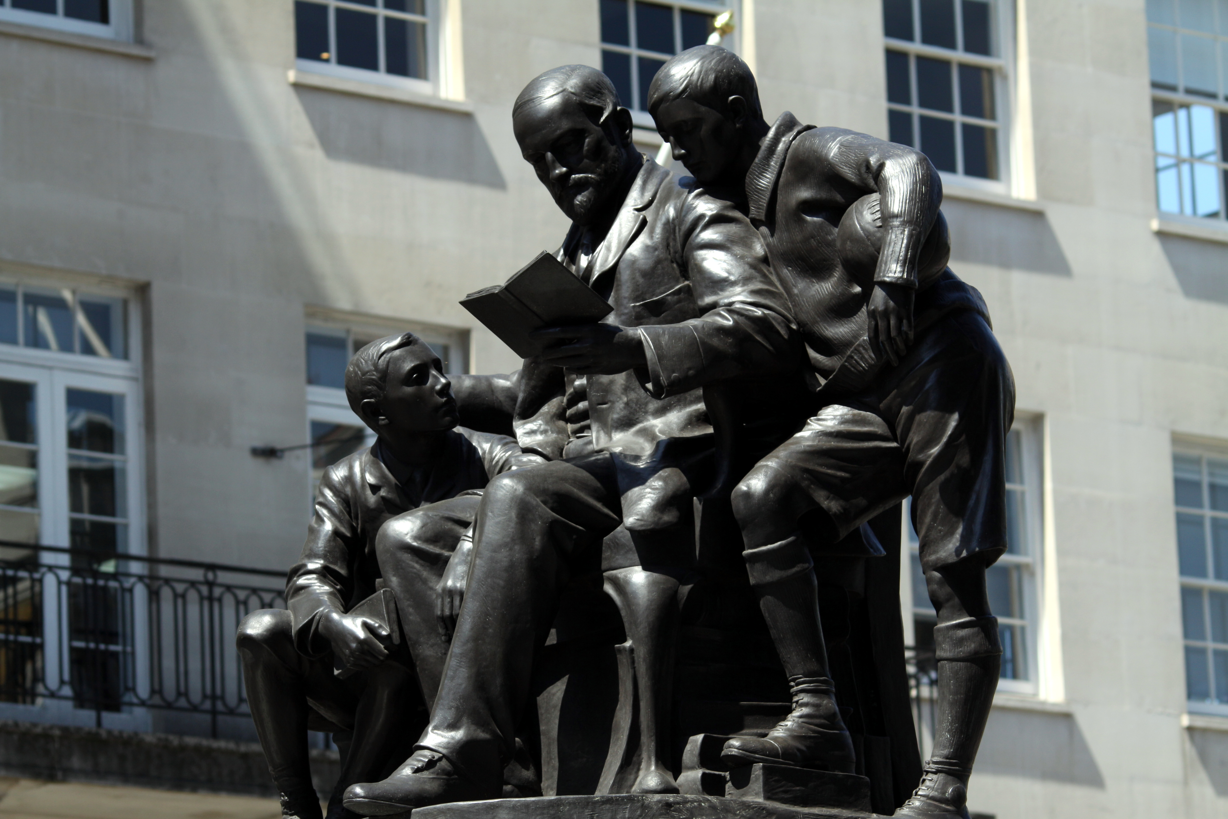 Sculpture of Quintin Hogg in the Portland Place, the City of Westminster in London, England, Great Britain The making of this file was supported by Wikimedia UK.